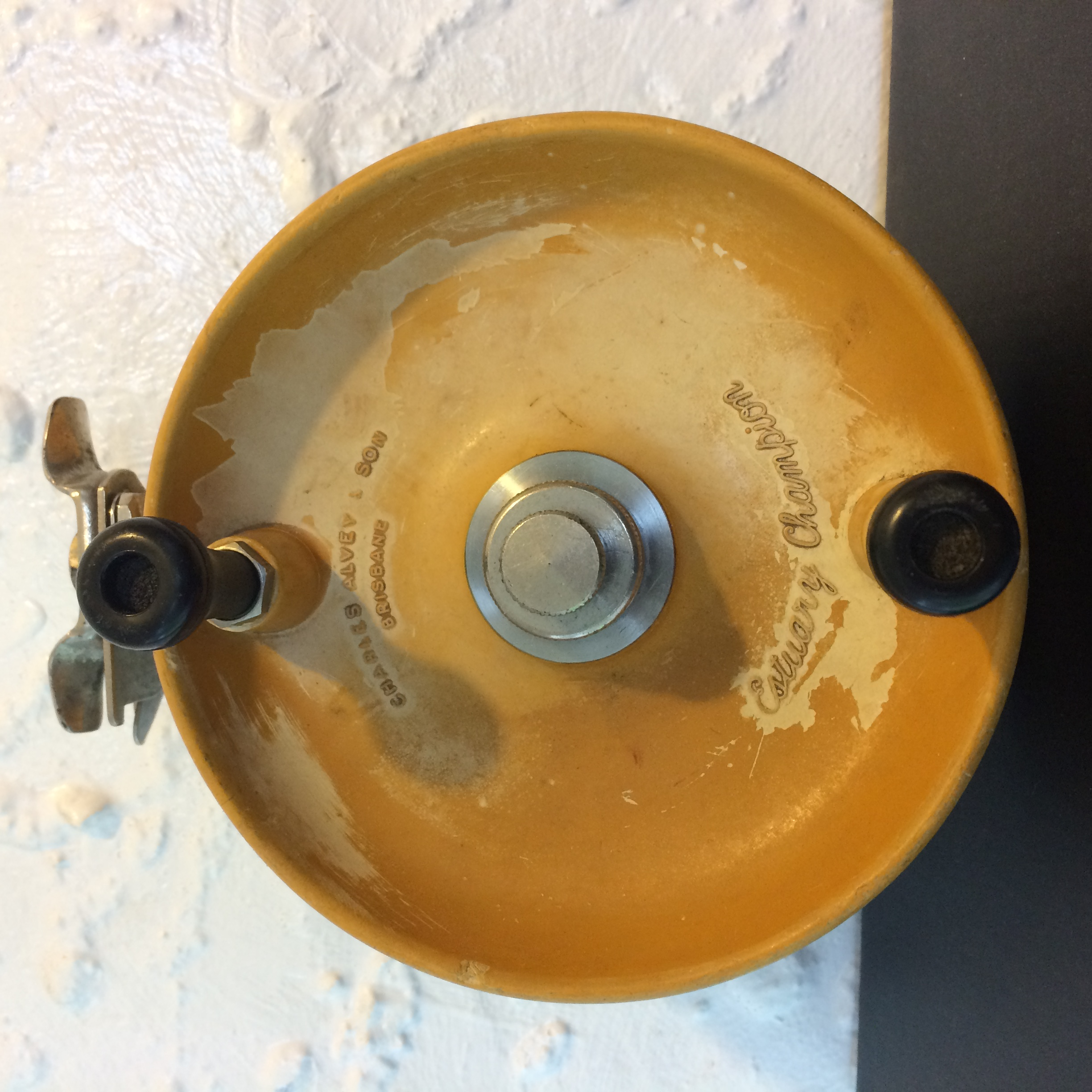 An Australian ("Alvey" brand) sidecast reel. 6 inches in diameter. Made in about 1980.